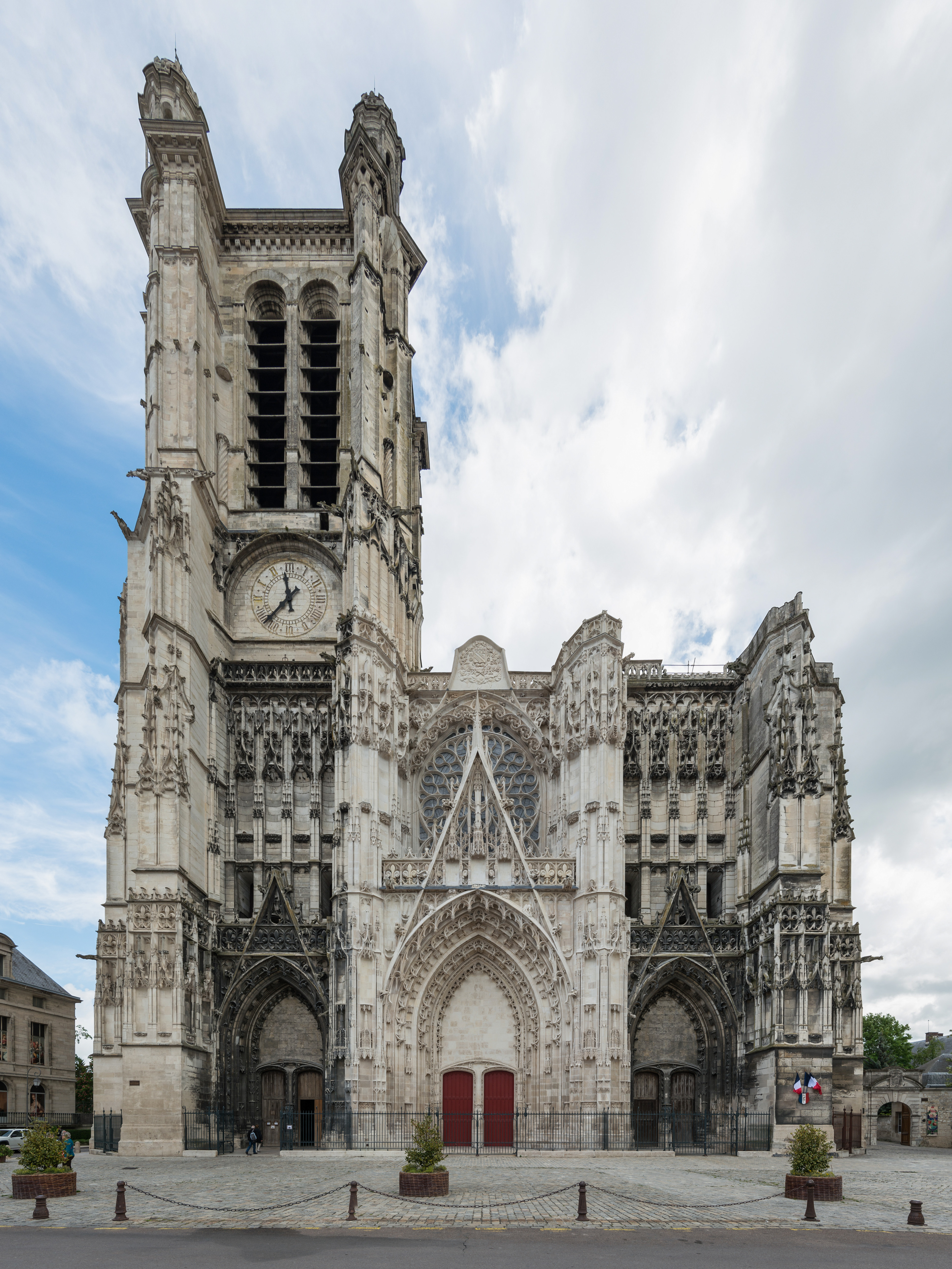 The west facade of Troyes Cathedral